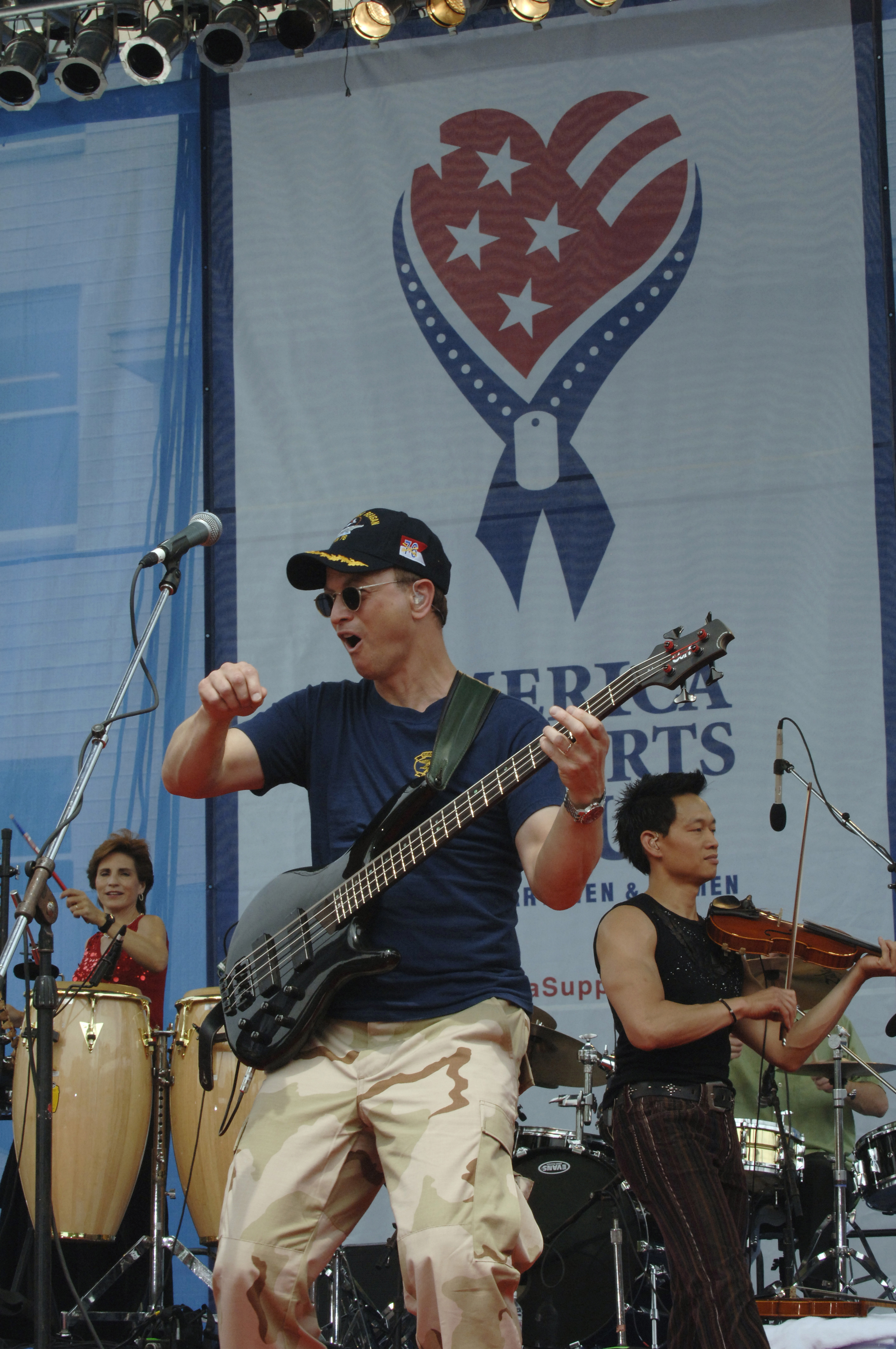 Gary Sinise, front man for The Lt. Dan Band, performs in the courtyard of the Pentagon May 5, 2006, in support of the America Supports You program. America Supports You highlights what thousands of Americans nationwide are doing to support service members and their families.